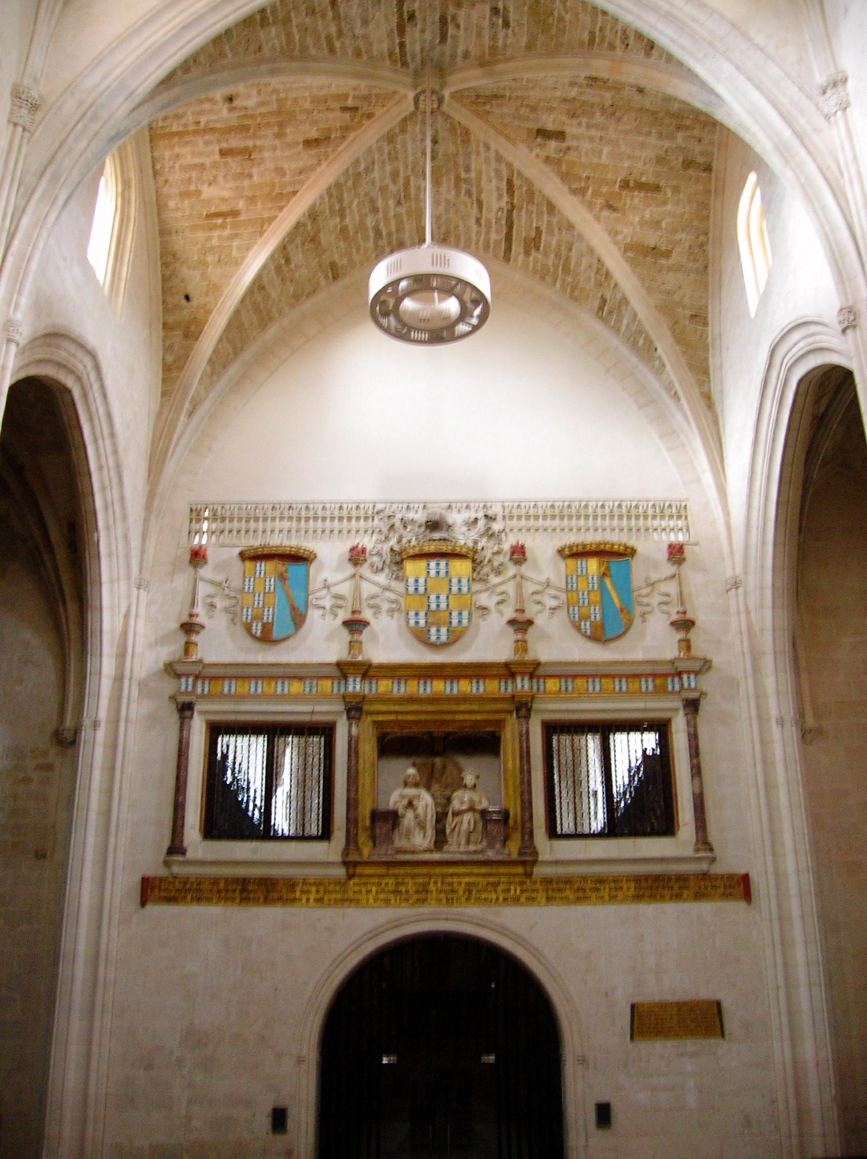 Iglesia del Monasterio de Santa Clara, en Medina de Pomar (Burgos, Castilla y León, España)